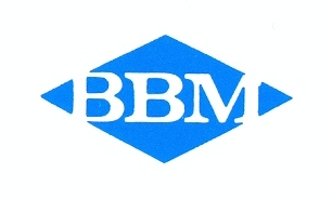 BBM-logo 1968-2008